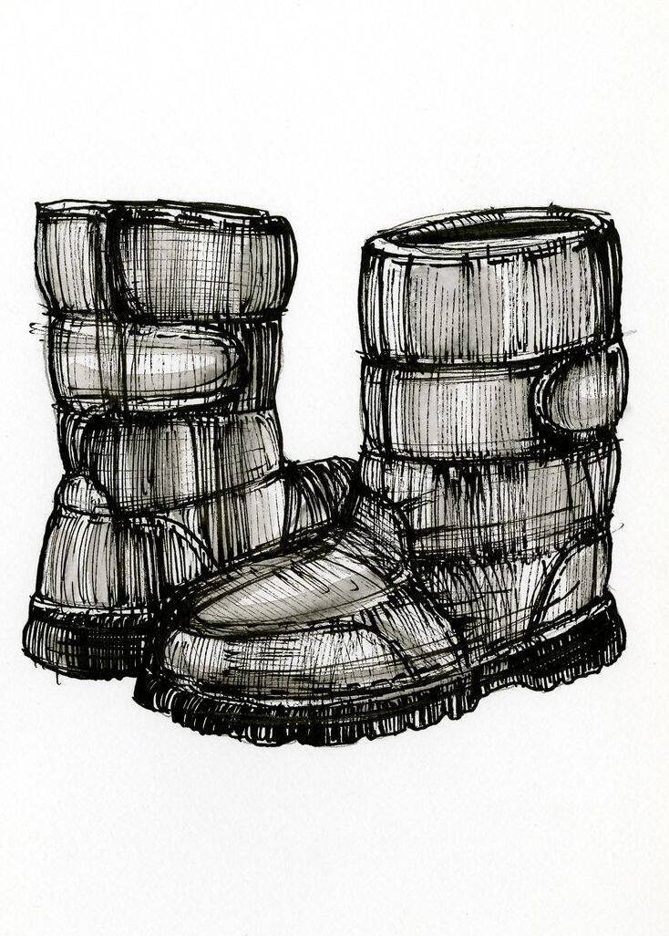 Drawing of the Thesaurus concept : 'après-ski boots'